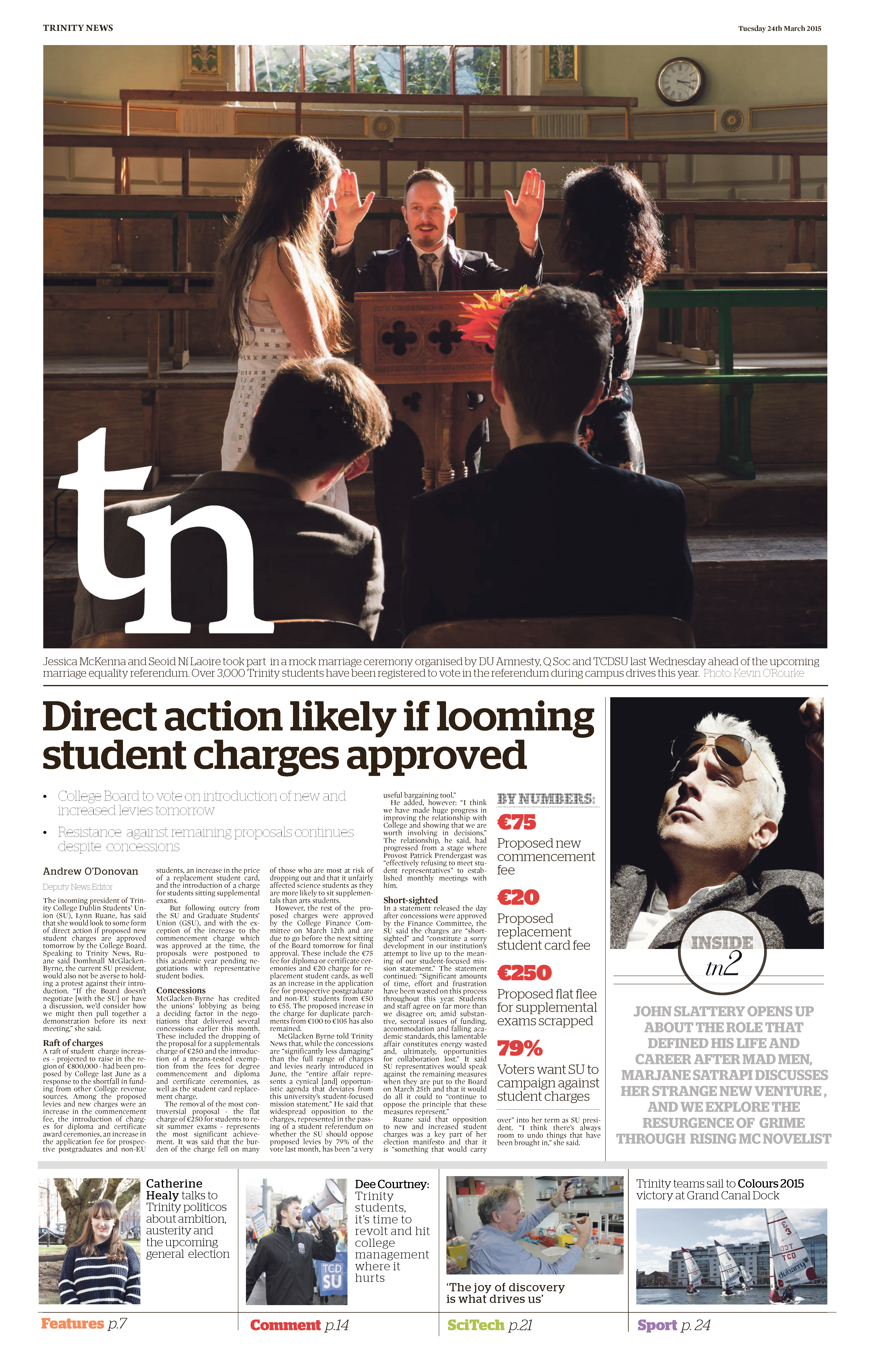 Cover page of Trinity News, Vol 61 Number 7